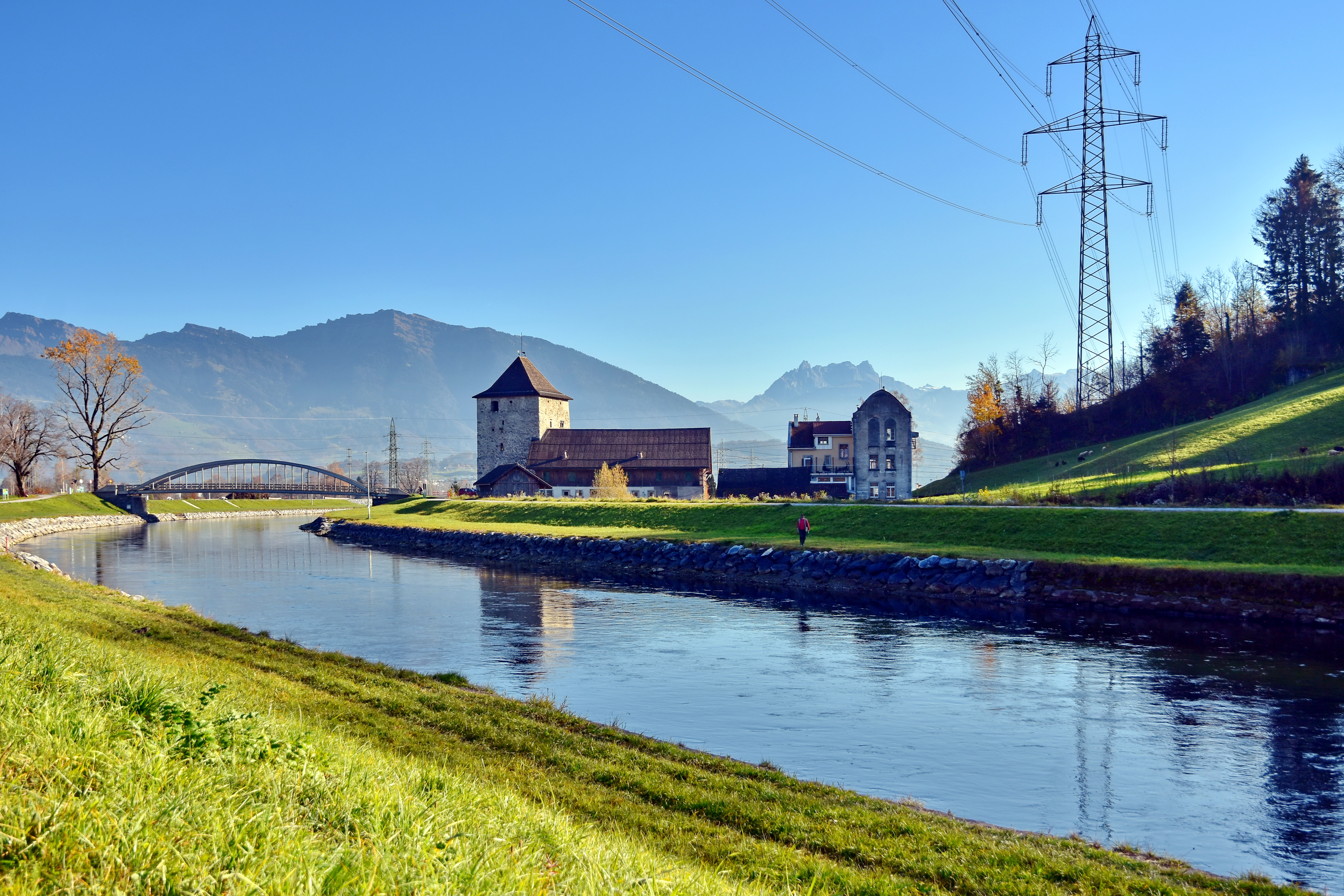 Grynau (Grinau or Schloss Grynau) is a castle tower, situated on the Linth canal in the Swiss municipality of Tuggen in the Canton of Schwyz, that was built by the House of Rapperswil in the early 13th century AD.